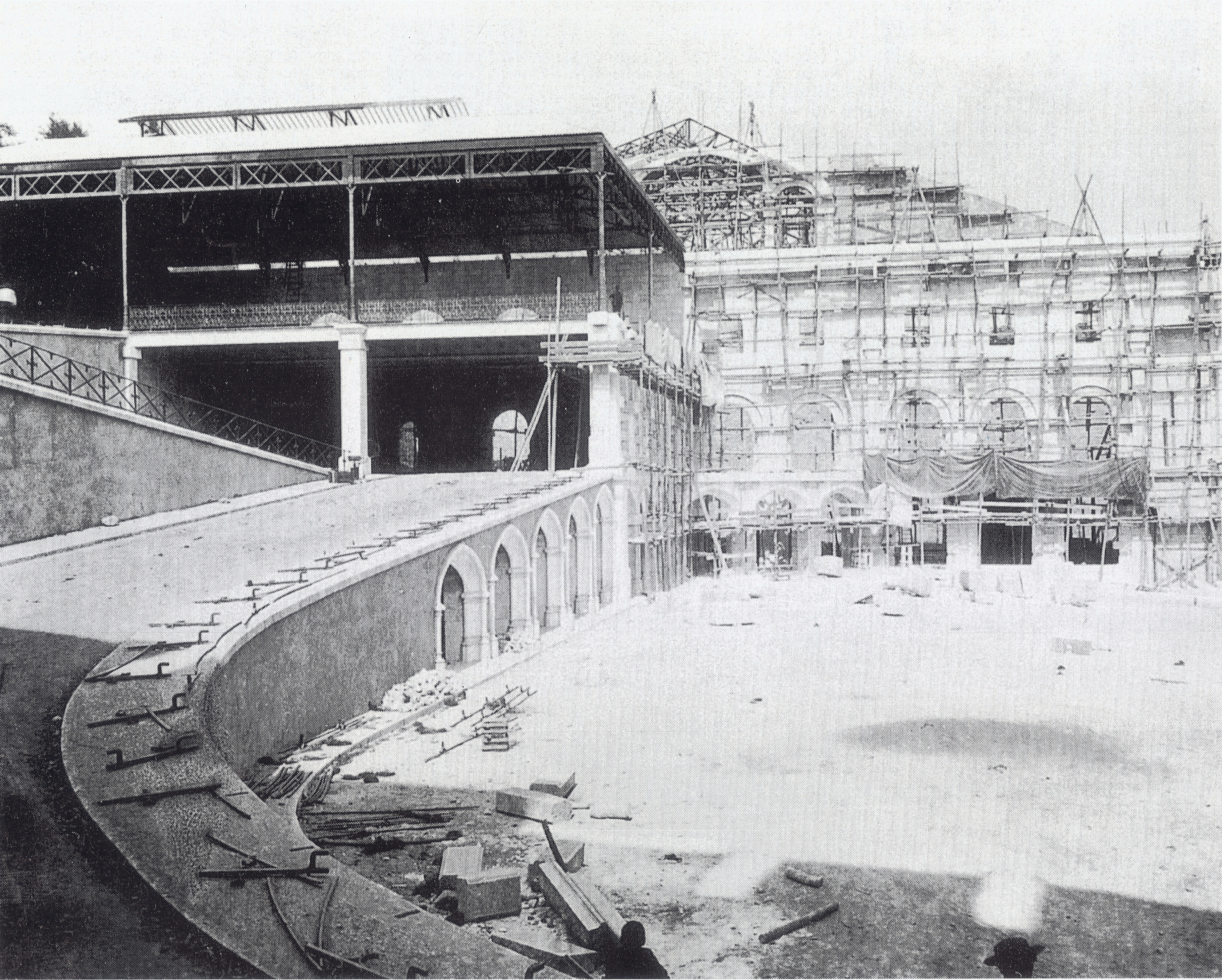 Construction of the Rossio Train Station, in Lisbon, Portugal. These works lasted from 1887 to 1889.